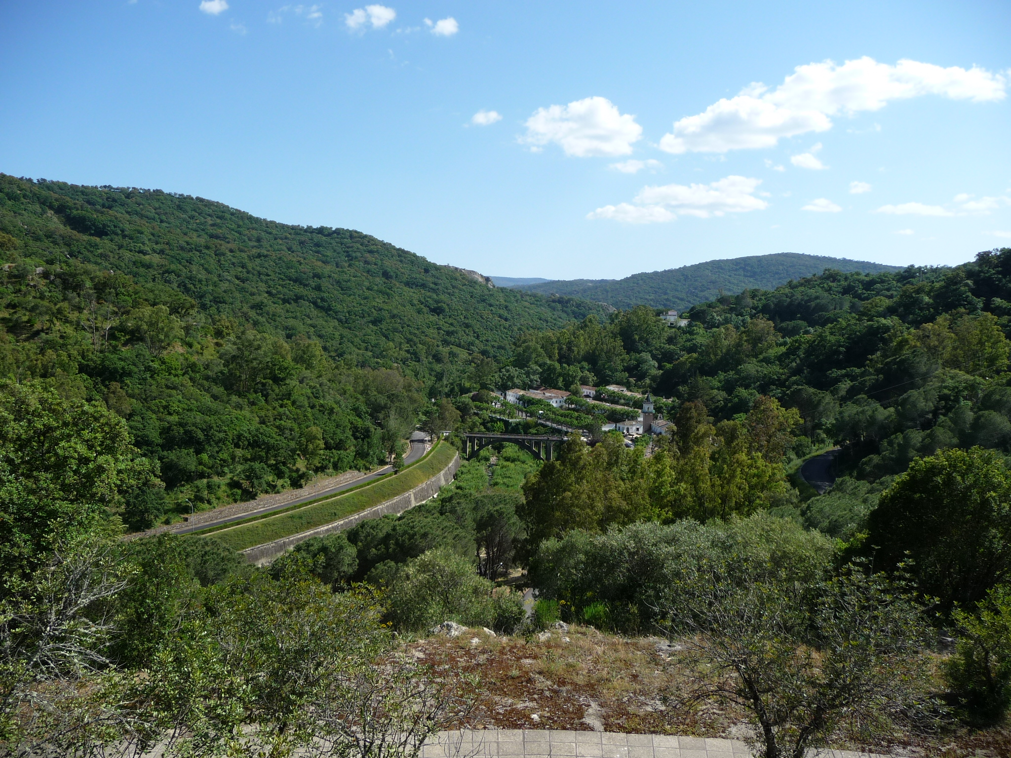 Los Hurones village (Jerez, Andalusia)